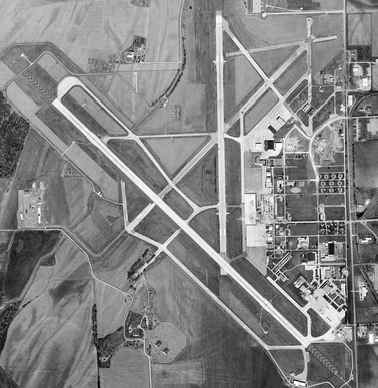 USGS orthophoto of Sioux City Airport, Iowa.